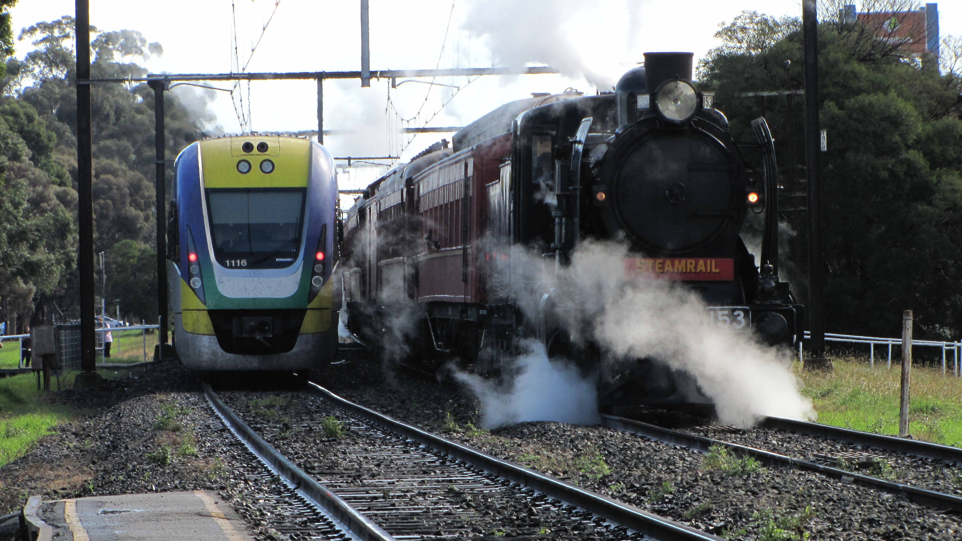 A V/Line train from Gippsland passes the steamrail shuttle at Pakenham.